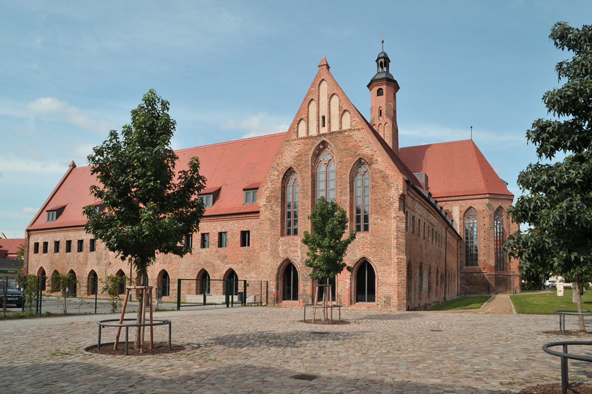 Archäologisches Landesmuseum Brandenburg in the historic Paulikloster, in Brandenburg an der Havel, Germany.